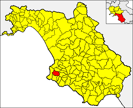 Locator map of the municipality of Perdifumo (red) within the Province of Salerno